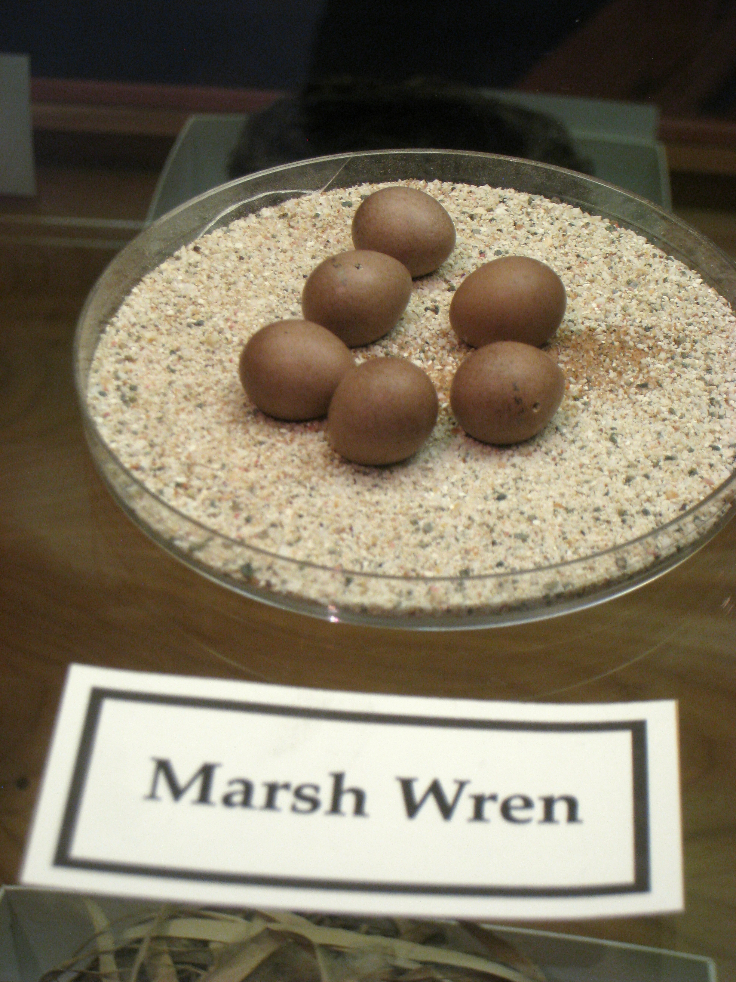 Marsh wren eggs in Museum of Science, Boston, Massachusetts, USA. Note that there was no prohibition against photography in the museum.